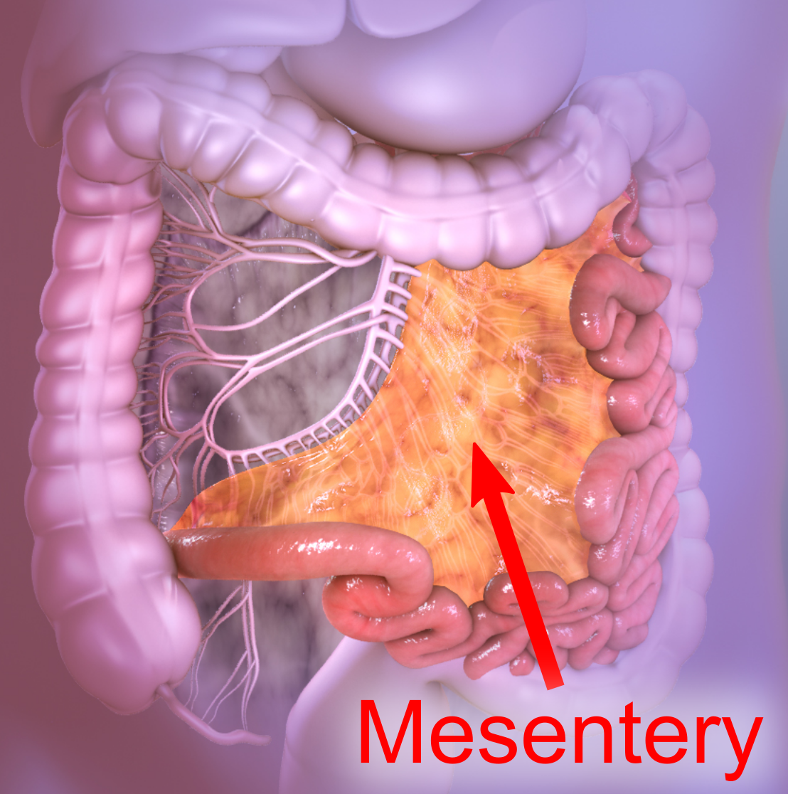 The mesentery labelled on an illustration of the digestive system